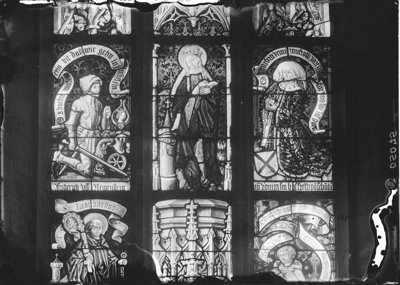 Stained-glass windows by Peter Hemmel von Andlau at the Mariä Krönung pilgrimage church in Lautenbach, circa 1482/1487 Archive page